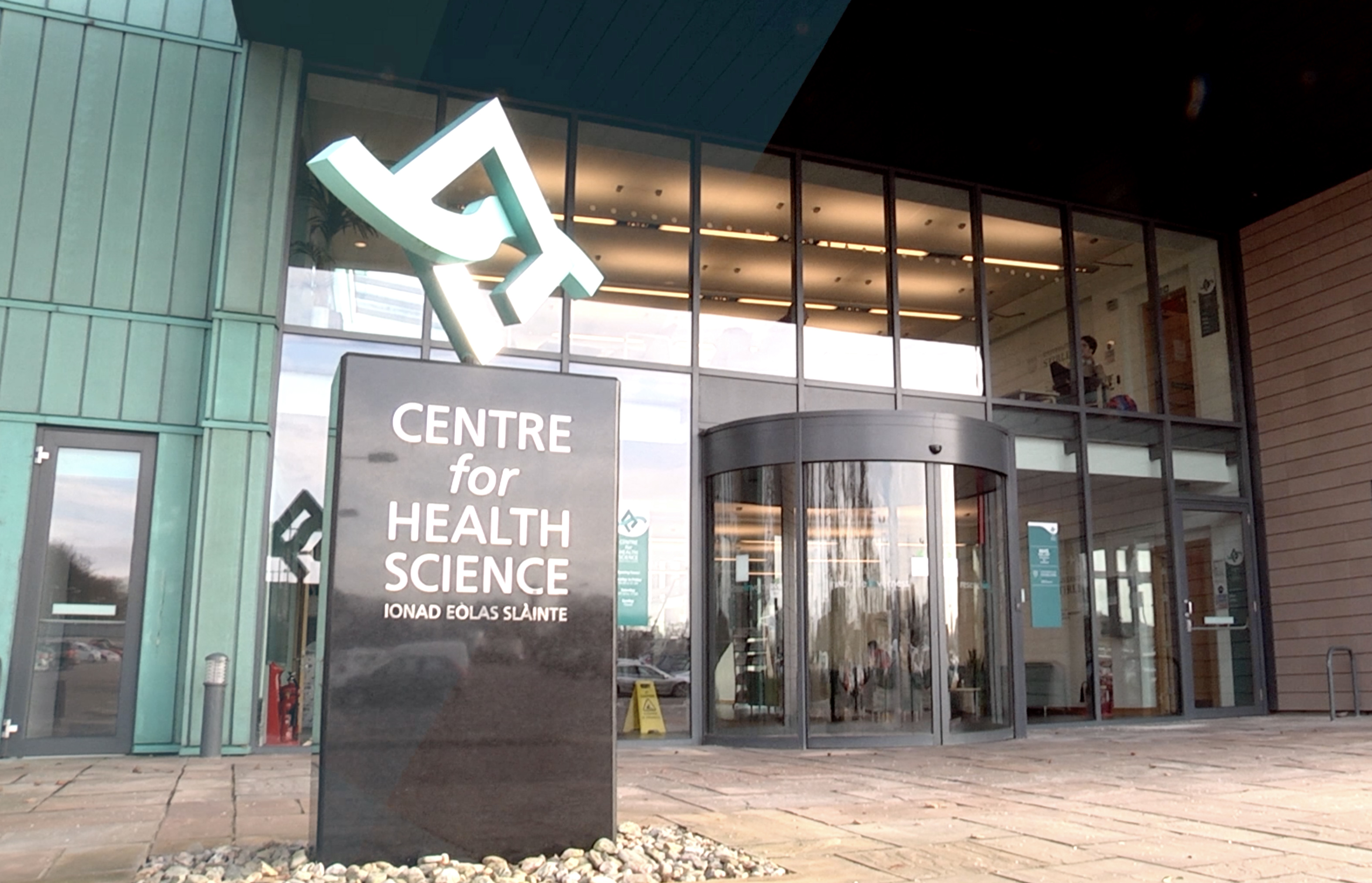 The Centre for Health Science is a state of the art facility located in the capital city of the Scottish Highlands, Inverness.